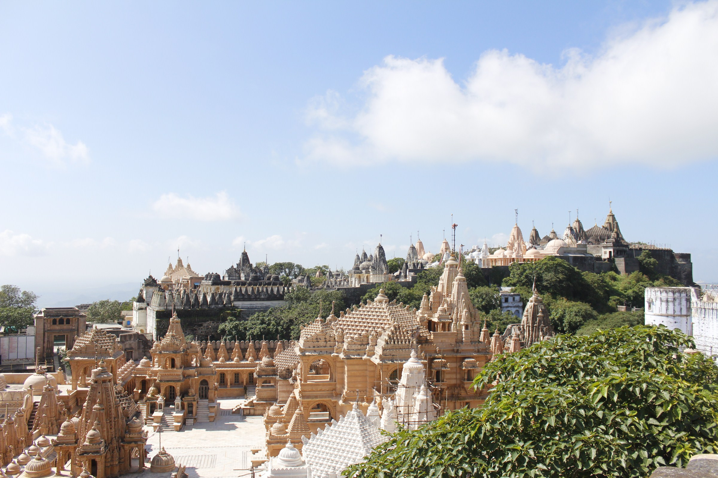 A historic temple in Palitana (Gujarat). To reach there people have to walk through about 3000 steps.